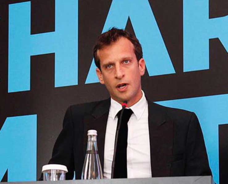 George Gardi during conference about the charity match for Samuel Eto'o Foundation